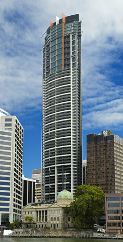 Aurora Tower in Brisbane, Australia